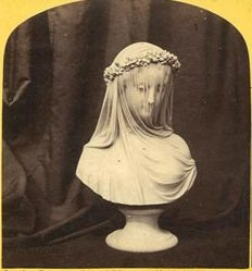 Рhotograph from the International Exhibition of 1862 - a Parian bust of The Bride, which can be found at the Fitzwilliam Museum, Cambridge.